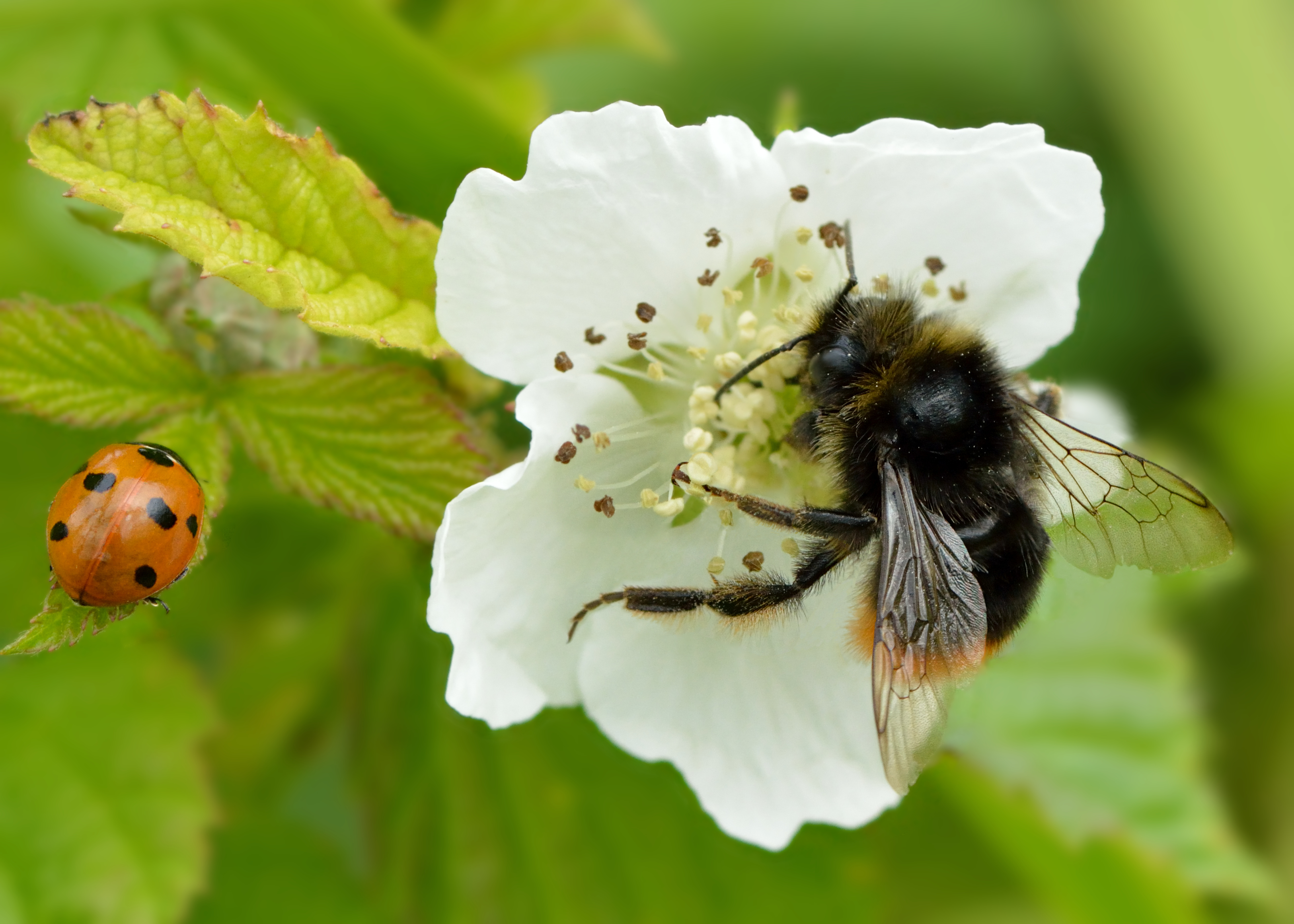 Red-tailed bumblebee drone (Bombus lapidarius) on the dewberry (Rubus caesius). Valingu, Northwestern Estonia.